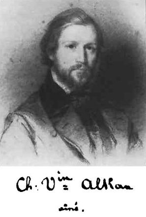 Charles Valentin Alkan (1813-1888), Portrait with signature added by --Dr. 91.41 09:10, 8 March 2008 (UTC)